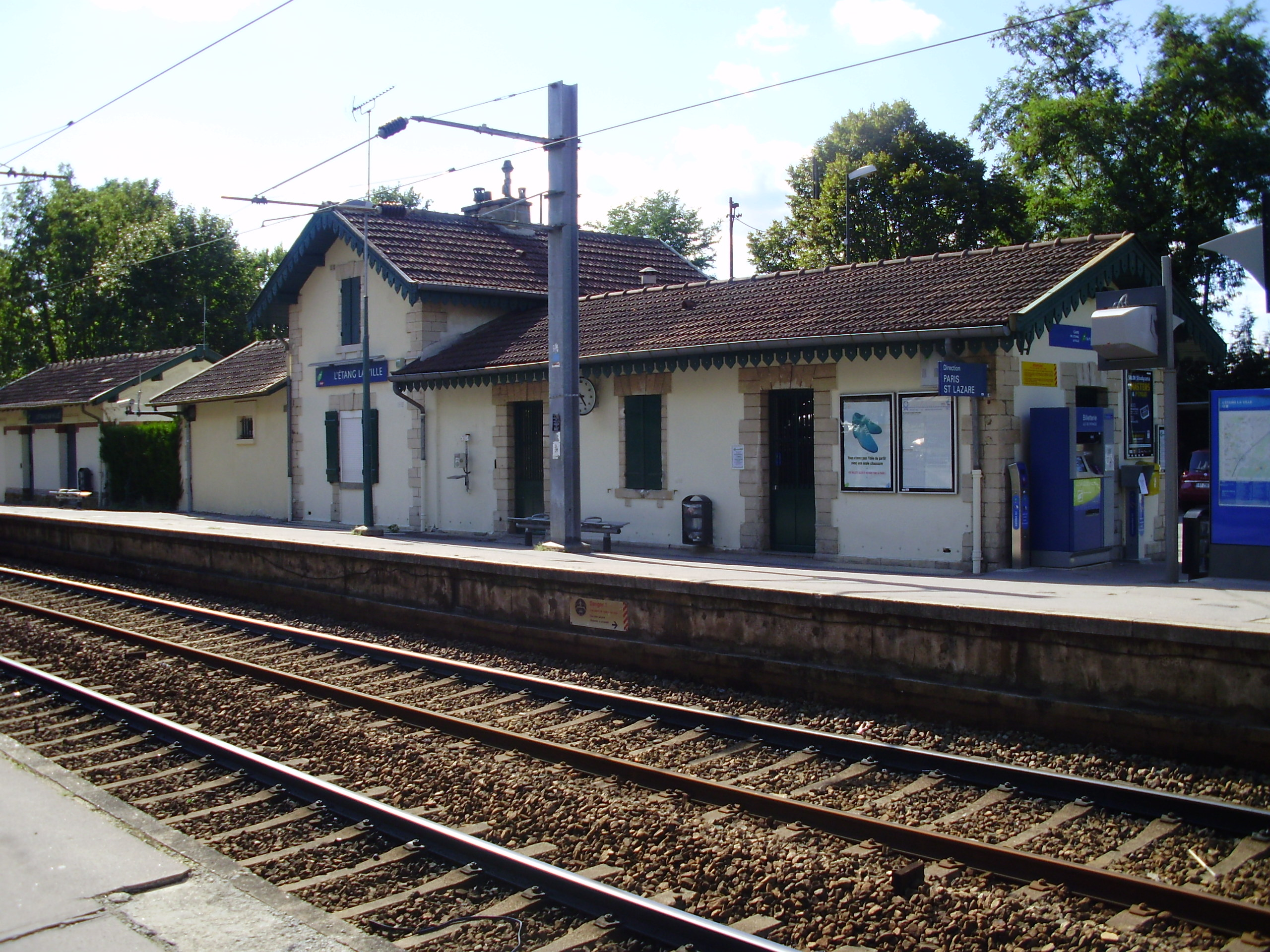 L'Étang-la-Ville station, Yvelines, France (station building seen from the platform to Saint-Nom-la-Bretèche)